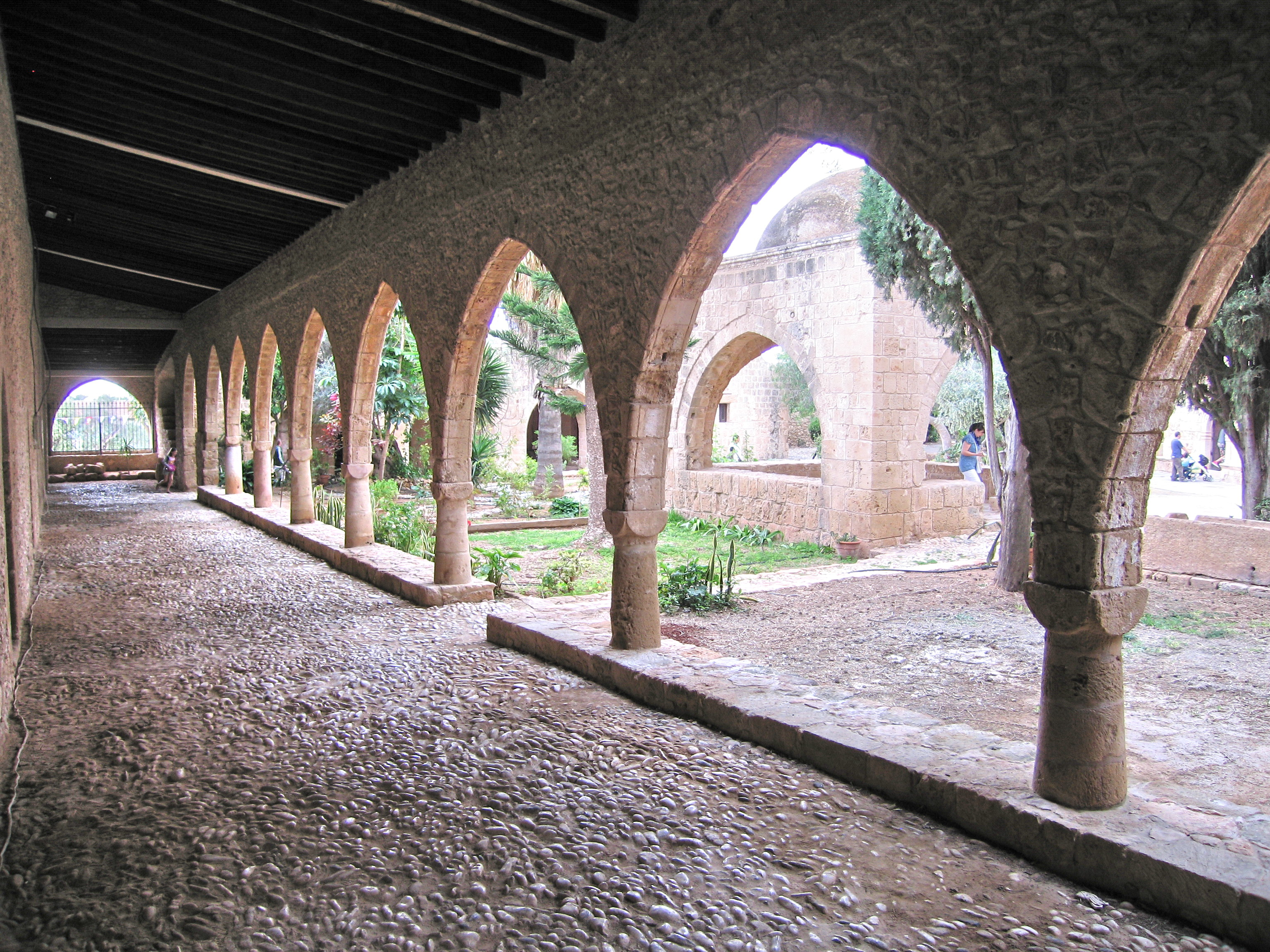 Arcade of Agia Napa Monastery